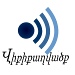 Logo of the Armenian Wikiquote (png Version )